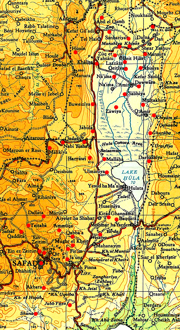 Villages captured during Operation Yiftach, 20 April to 29 May 1948.